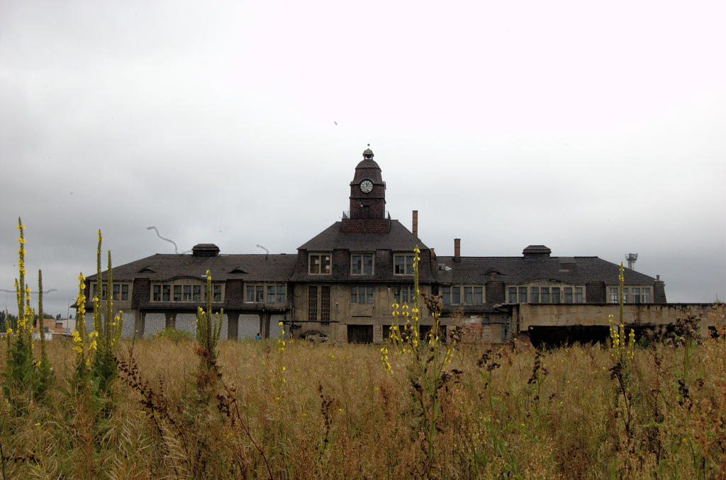 Remains of the Utheman Metalworks in Szopienice.